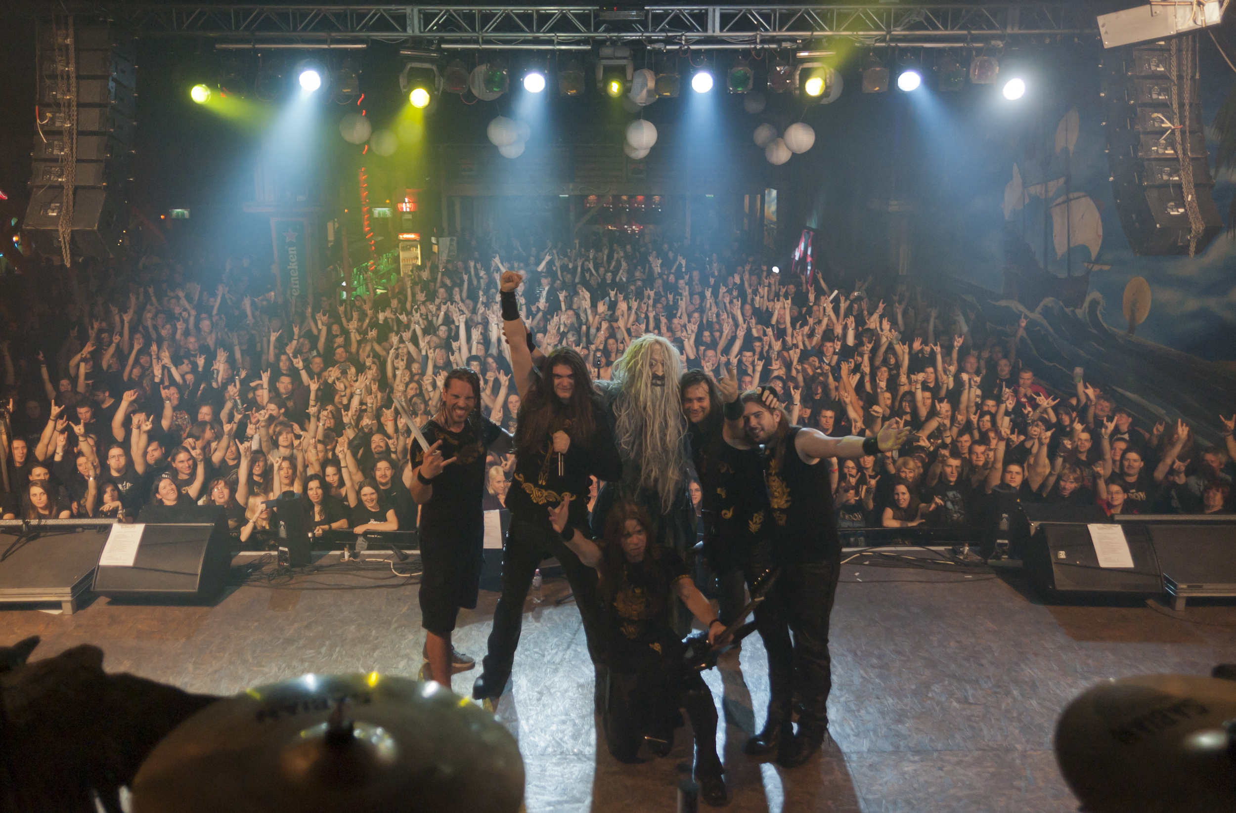 Photo taken of Wisdom with Wiseman on their Marching For Liberty album release show in 2013.